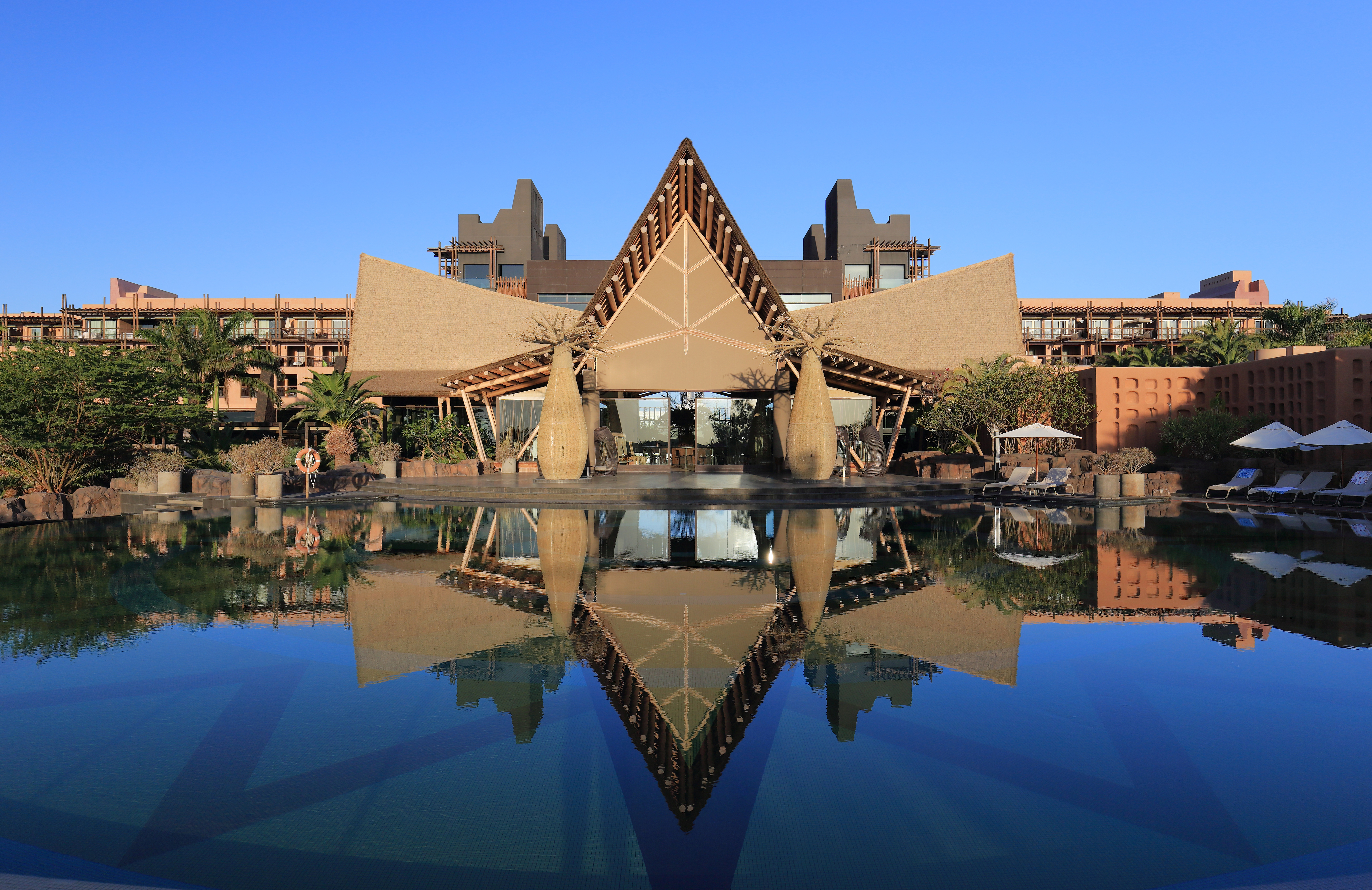 Lopesan Baobab Resort, Maspalomas, Gran Canaria.